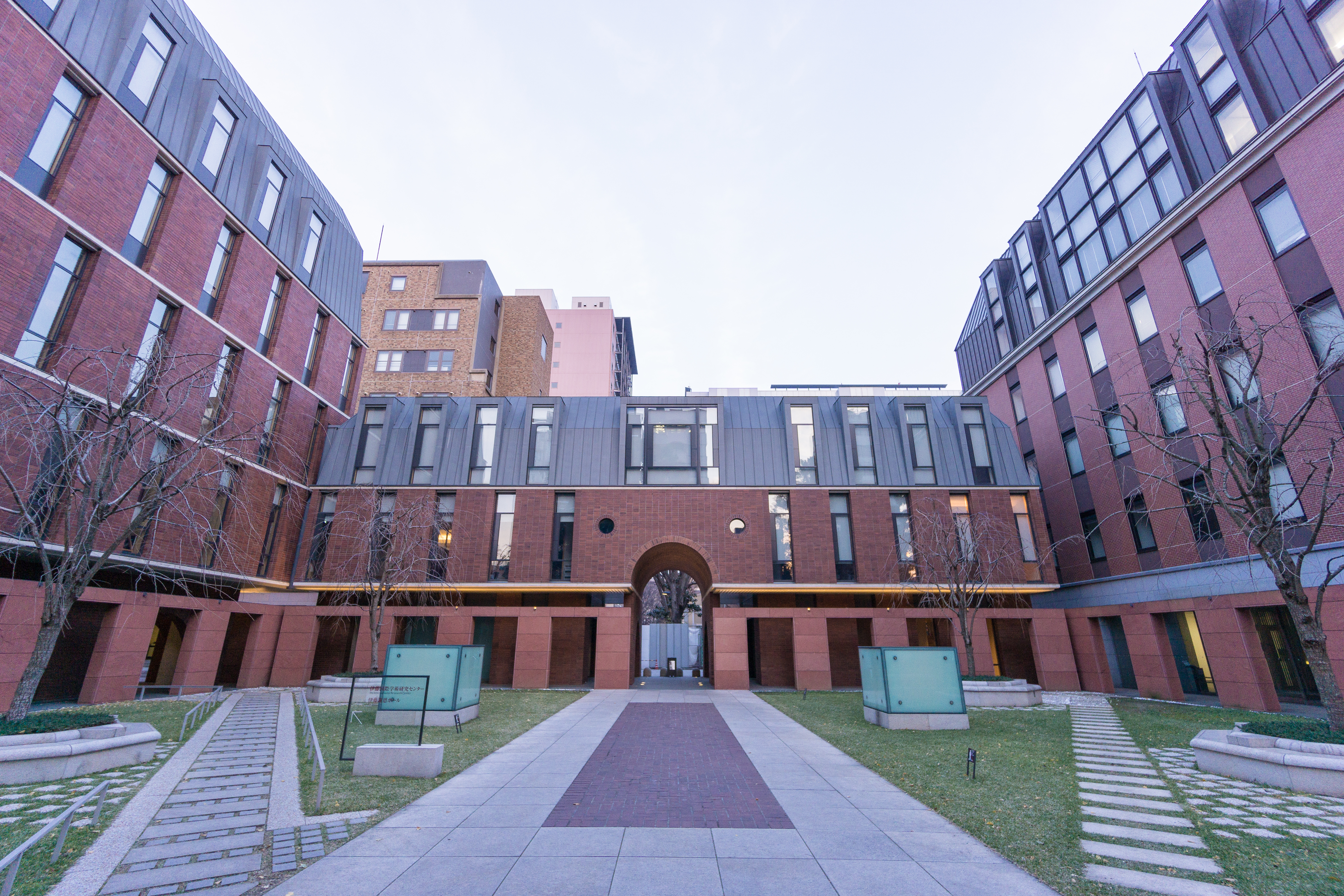 東京大学 / The University of Tokyo